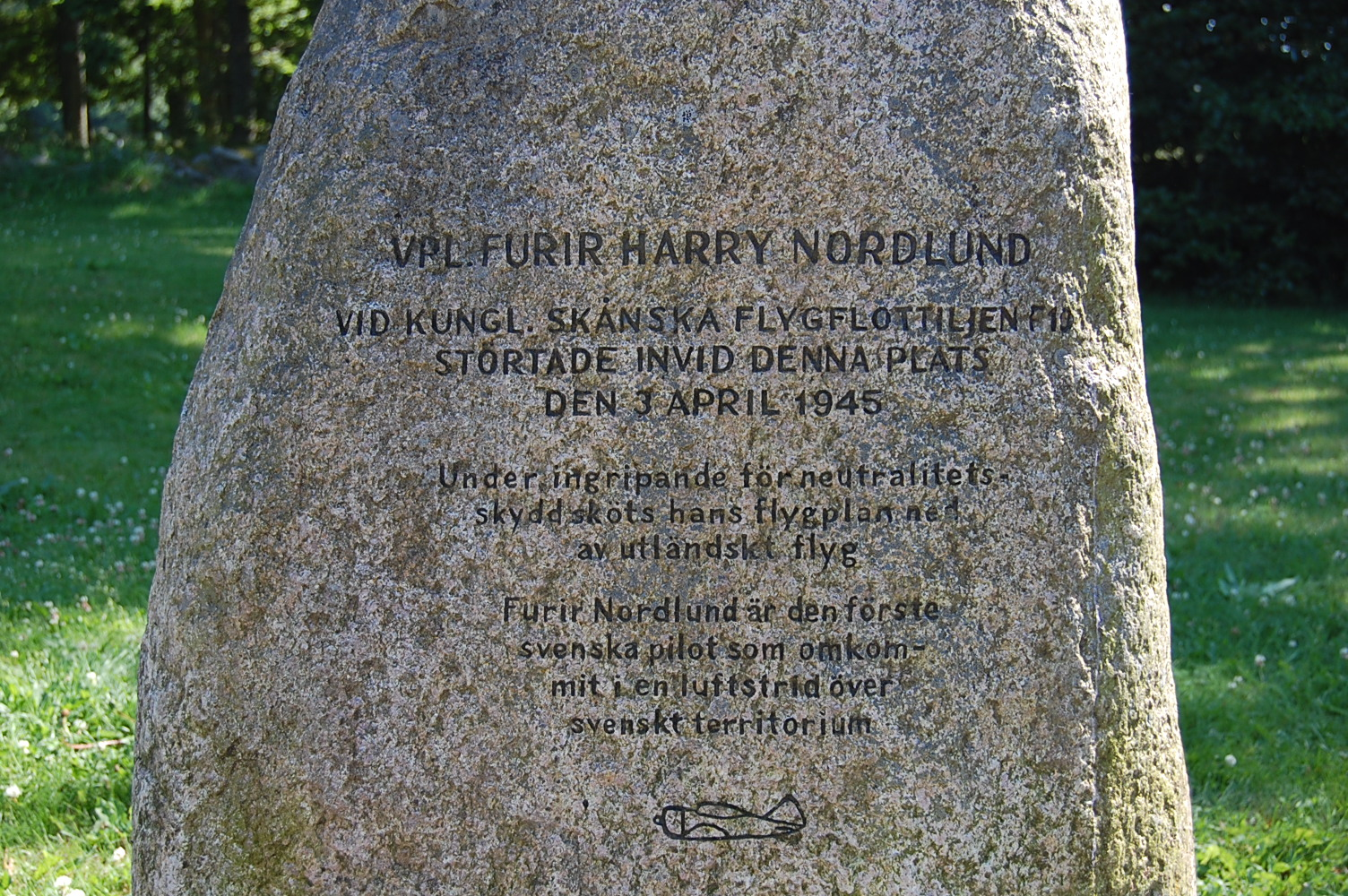 Harry Nordlund, the first swedish pilot killed over swedish land.